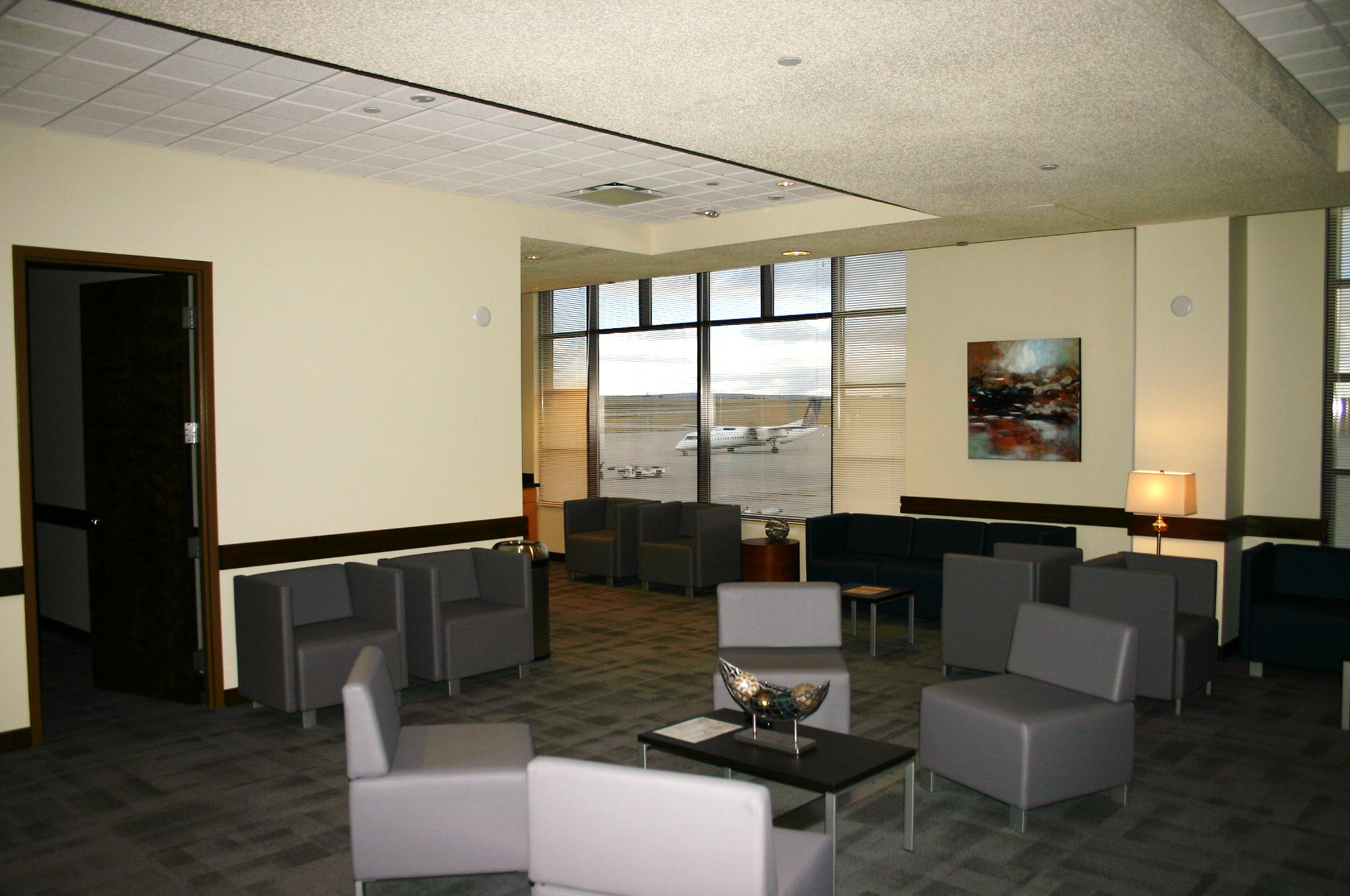 Inside the Freedom Financial Premier Lounge.